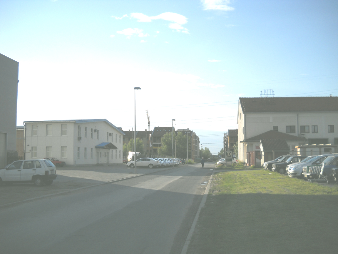 Central street in Jugovićevo neighborhood in Novi Sad.